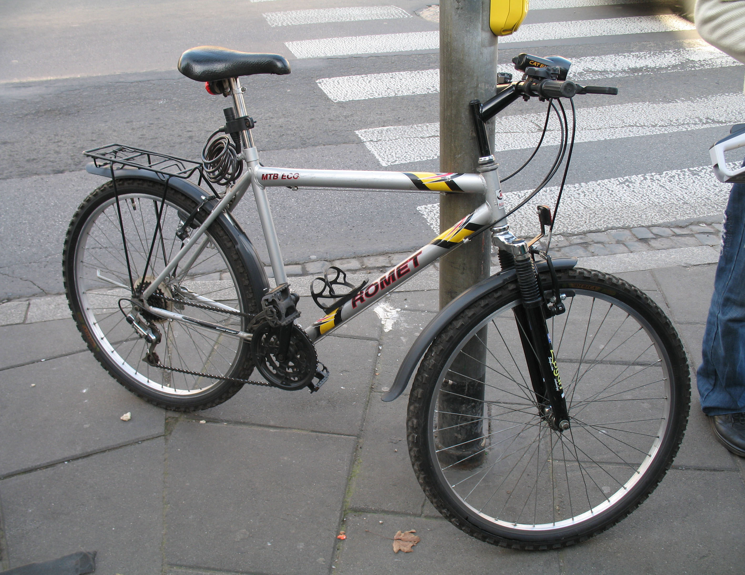 Romet MTB ECO bicycle in Kraków, Poland.